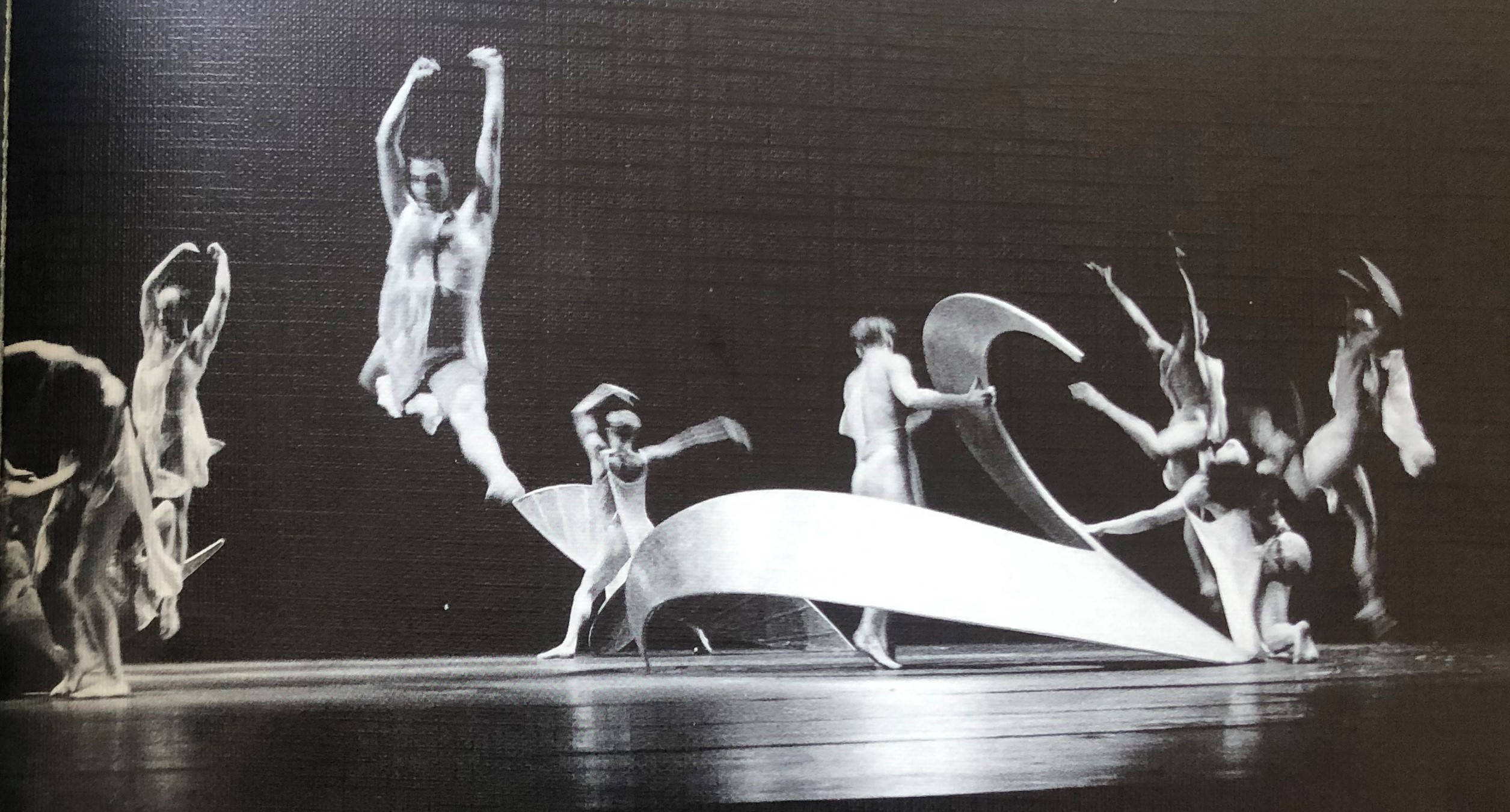 Roberto Cordone, Movimenti, Museum Morsbroich, Leverkusen, 1995.